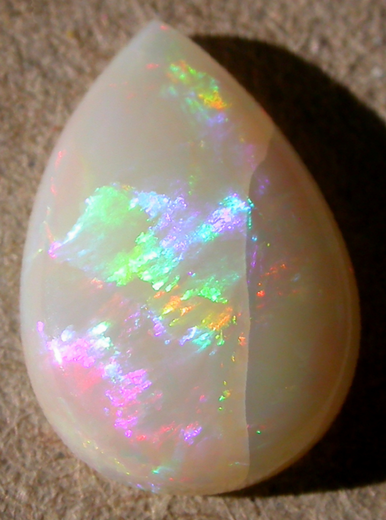 white opal as a dropform cabochon